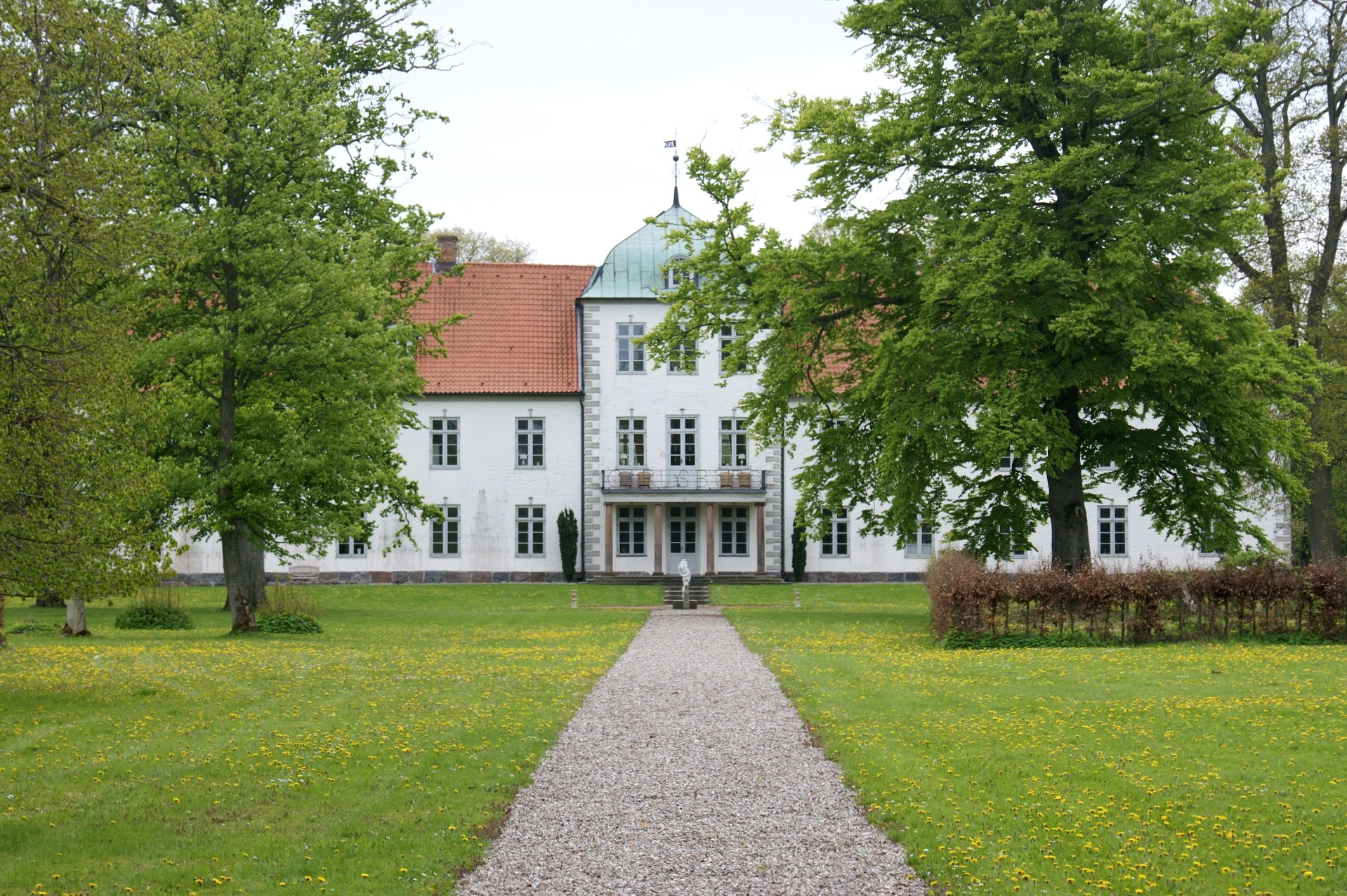 Carlsburg Manor